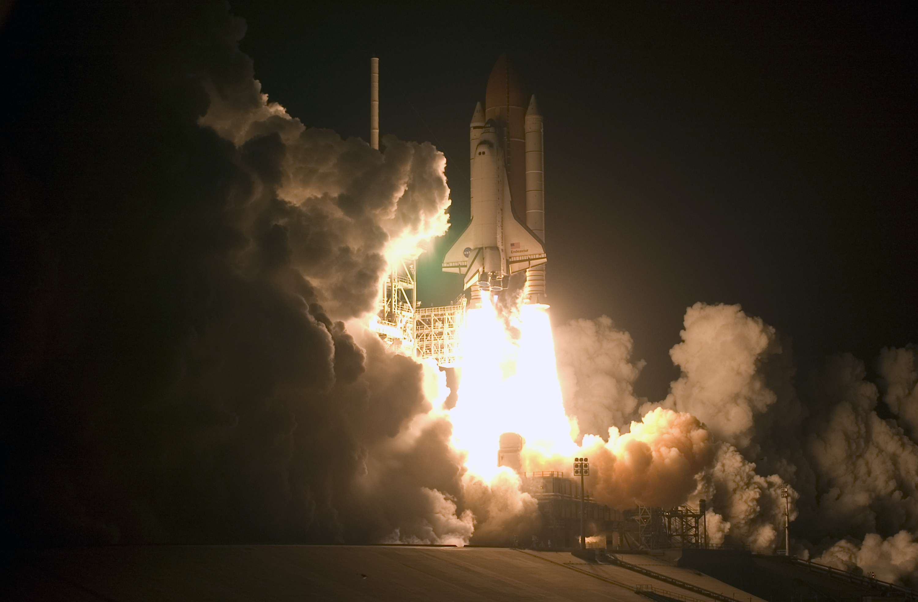 CAPE CANAVERAL, Fla. – Light-filled clouds of smoke and steam roll across Launch Pad 39A at NASA's Kennedy Space Center as space shuttle Endeavour hurtles into the night sky on the STS-126 mission. Liftoff was on time at 7:55 p.m. EST. STS-126 is the 124th space shuttle flight and the 27th flight to the International Space Station. The mission will feature four spacewalks and work that will prepare the space station to house six crew members for long-duration missions